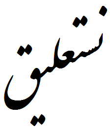 The word nastaʿlīq (Persian نستعلیق, Urdu or Arabic نستعليق) written in nasta'liq style